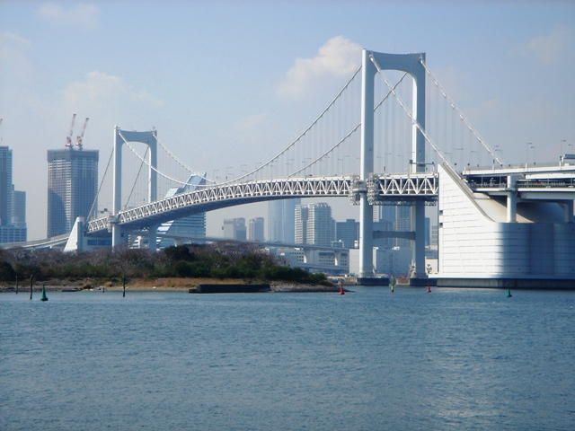 Rainbow Bridge in Odaiba, Minato, Tokyo